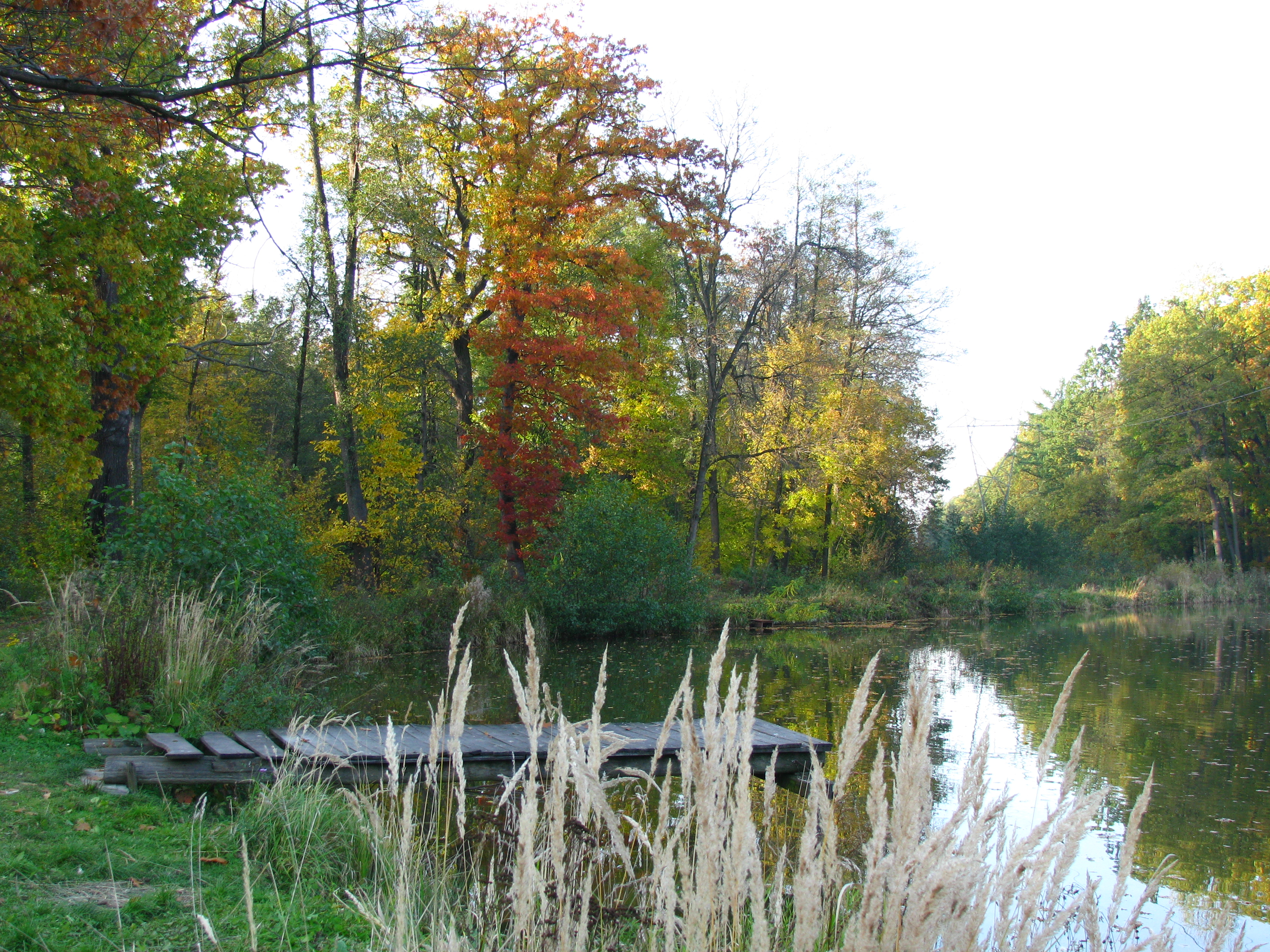 Dziki Park in Pszczyna